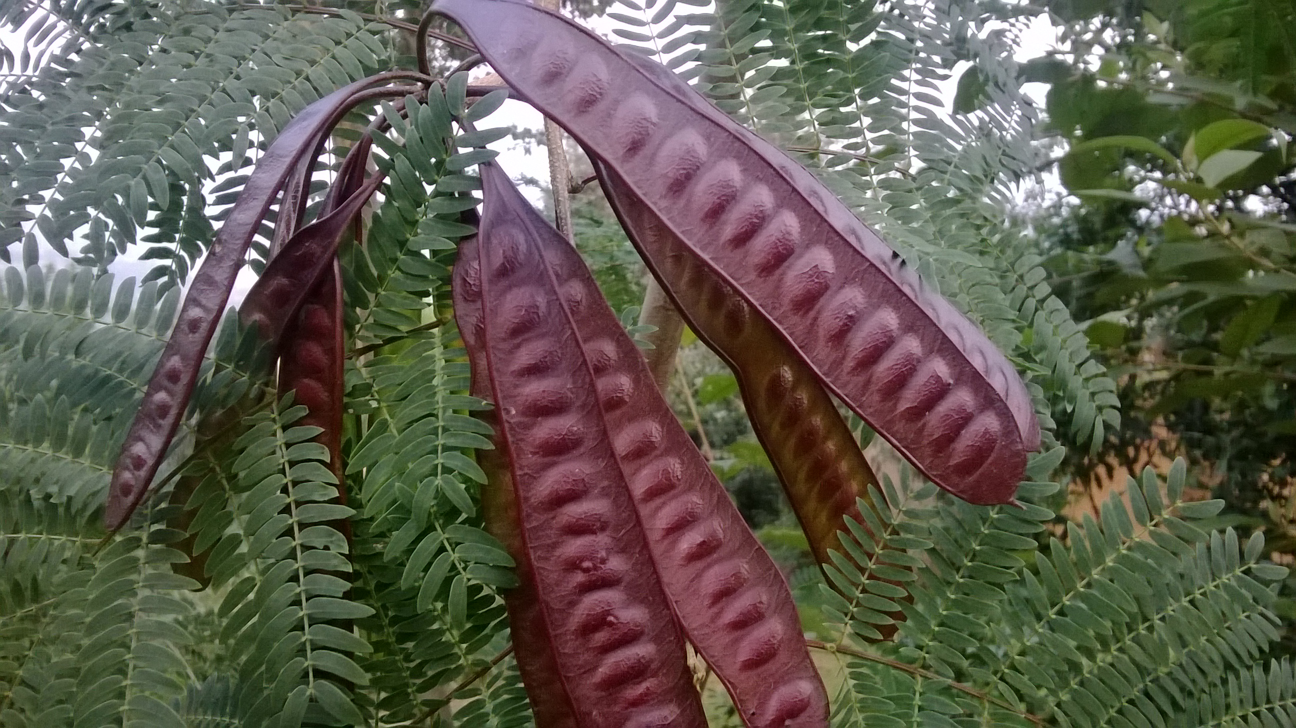 Leucaena leucocephala pods in November.